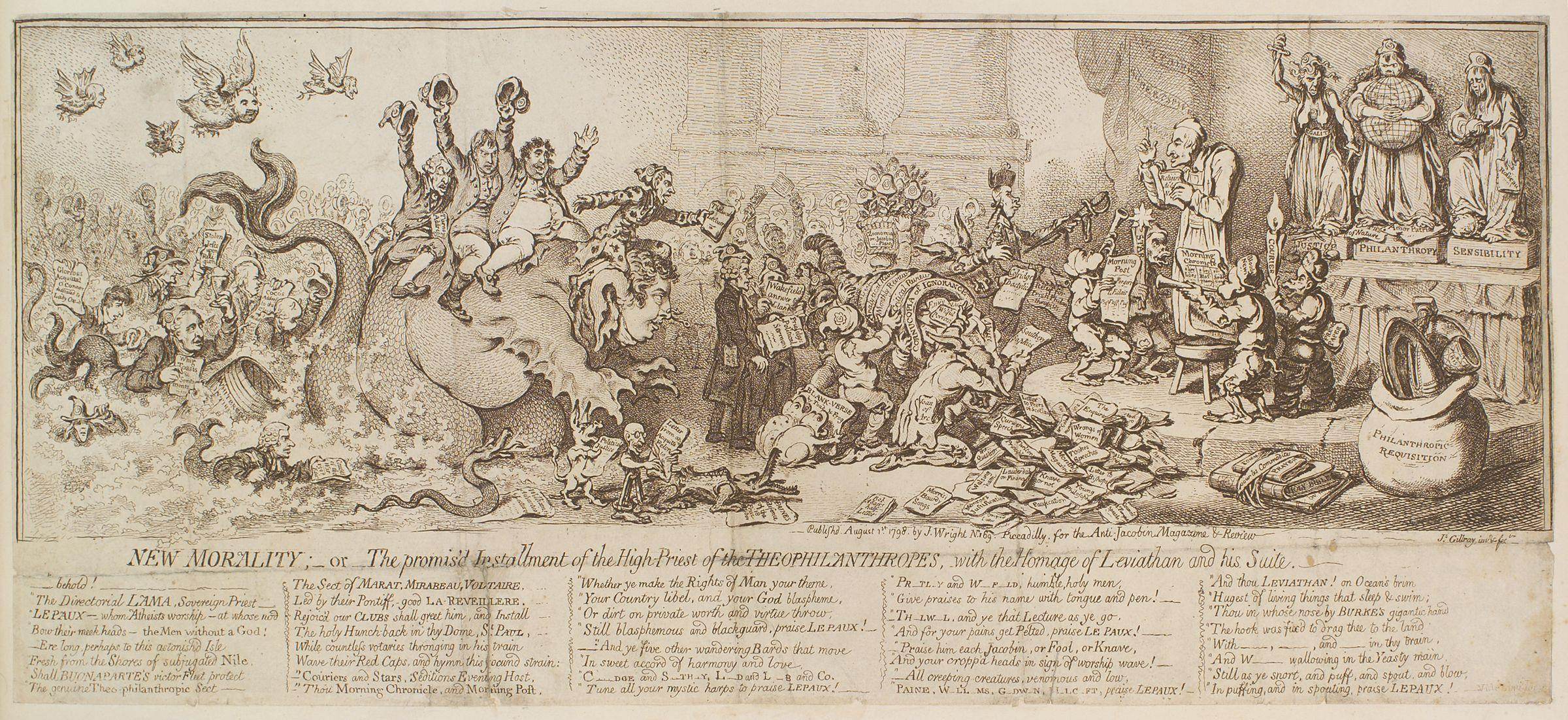 New morality; - or - the promis'd installment of the high-priest of the Theophilanthropes, with the homage of Leviathan and his suite, by James Gillray (died 1815), published 1798. All images in this batch have been confirmed as author died before 1939 according to the official death date listed by the NPG.